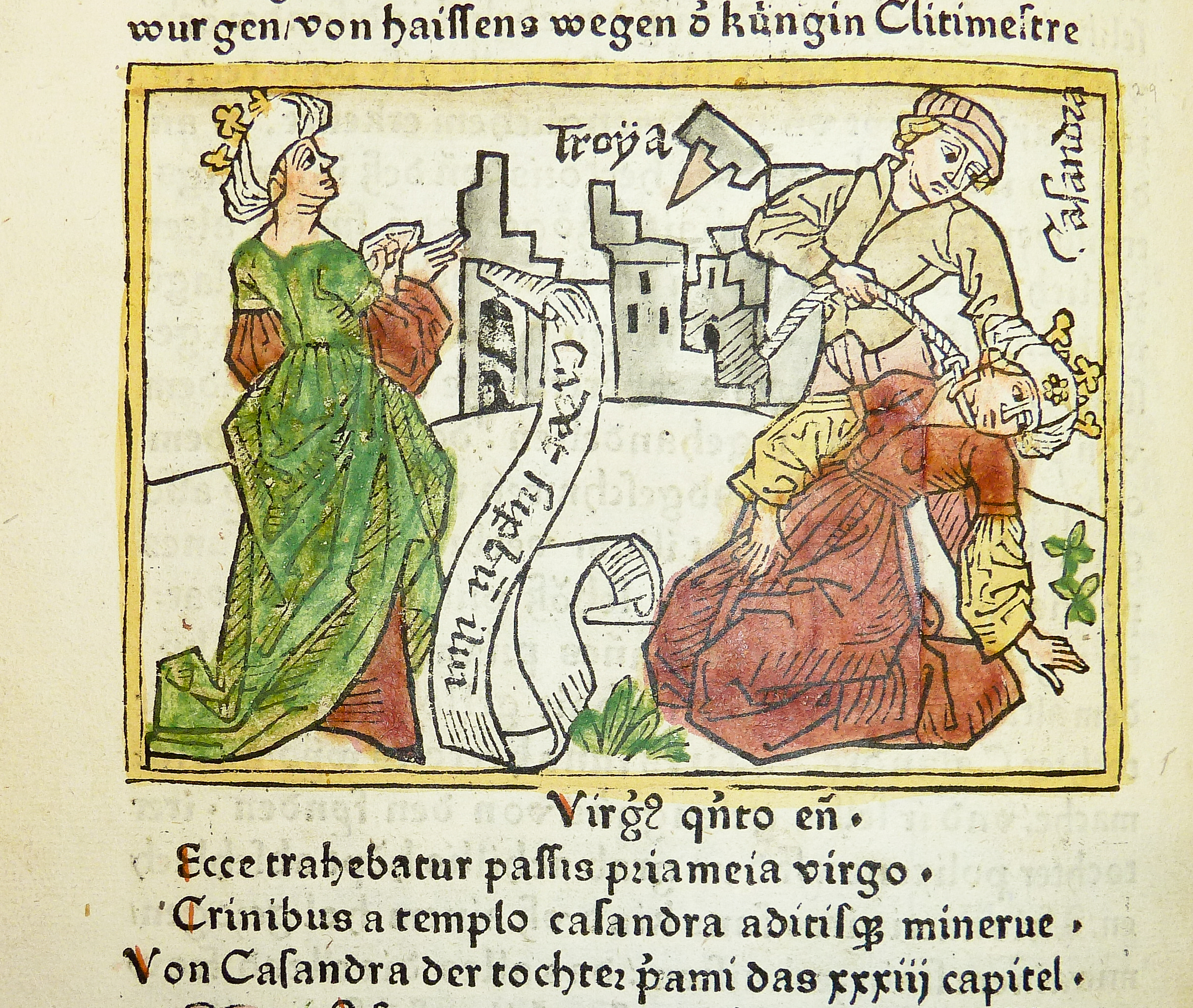 Woodcut illustration (leaf [f]5v, f. xlv) of Cassandra's prophecy of the fall of Troy (at left) and her death (at right), hand-colored in red, green, yellow and black, from an incunable German translation by Heinrich Steinhöwel of Giovanni Boccaccio's De mulieribus claris, printed by Johannes Zainer at Ulm ca. 1474 (cf. ISTC ib00720000). One of 76 woodcut illustrations (1 on leaf [e]8v dated 1473), each 80 x 110 mm., depicting scenes from the life of the women chronicled (for a full list of subjects, cf. W.L. Schreiber, Handbuch der Holz- und Metallschnitte des XV. Jahrhunderts (Nendeln: Kraus Reprints, 1969), no. 3506). "Pour la première moitie le nom se trouve inscrit à côte de la tête de chaque femme, pour le reste il es ajouté entre les deux réglettes. Il n'y en a que trois, qui n'ont qu'un seul trait carré."--Schreiber. Established form: Zainer, Johannes, ‡d d. 1541?. Established form: Cassandra (Legendary character) Penn Libraries call number: Inc B-720 All images from this book Penn Libraries catalog record